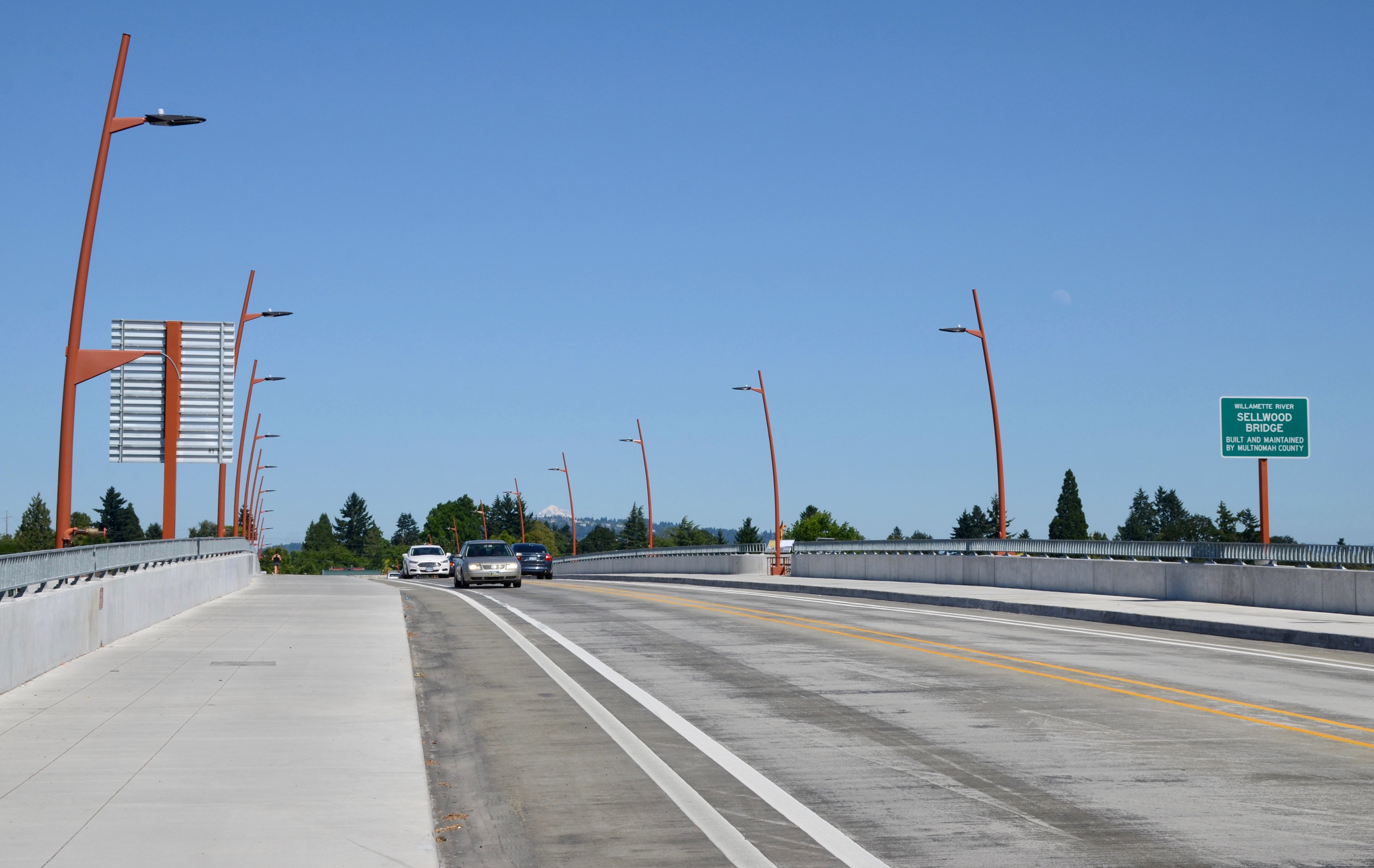 The deck of new Sellwood Bridge from the north sidewalk, looking east. The new bridge, which opened in February 2016, has much wider traffic lanes, much wider sidewalks – and the one on the south side is new, the old bridge having had no sidewalk on its south side – and bike lanes (on both sides).